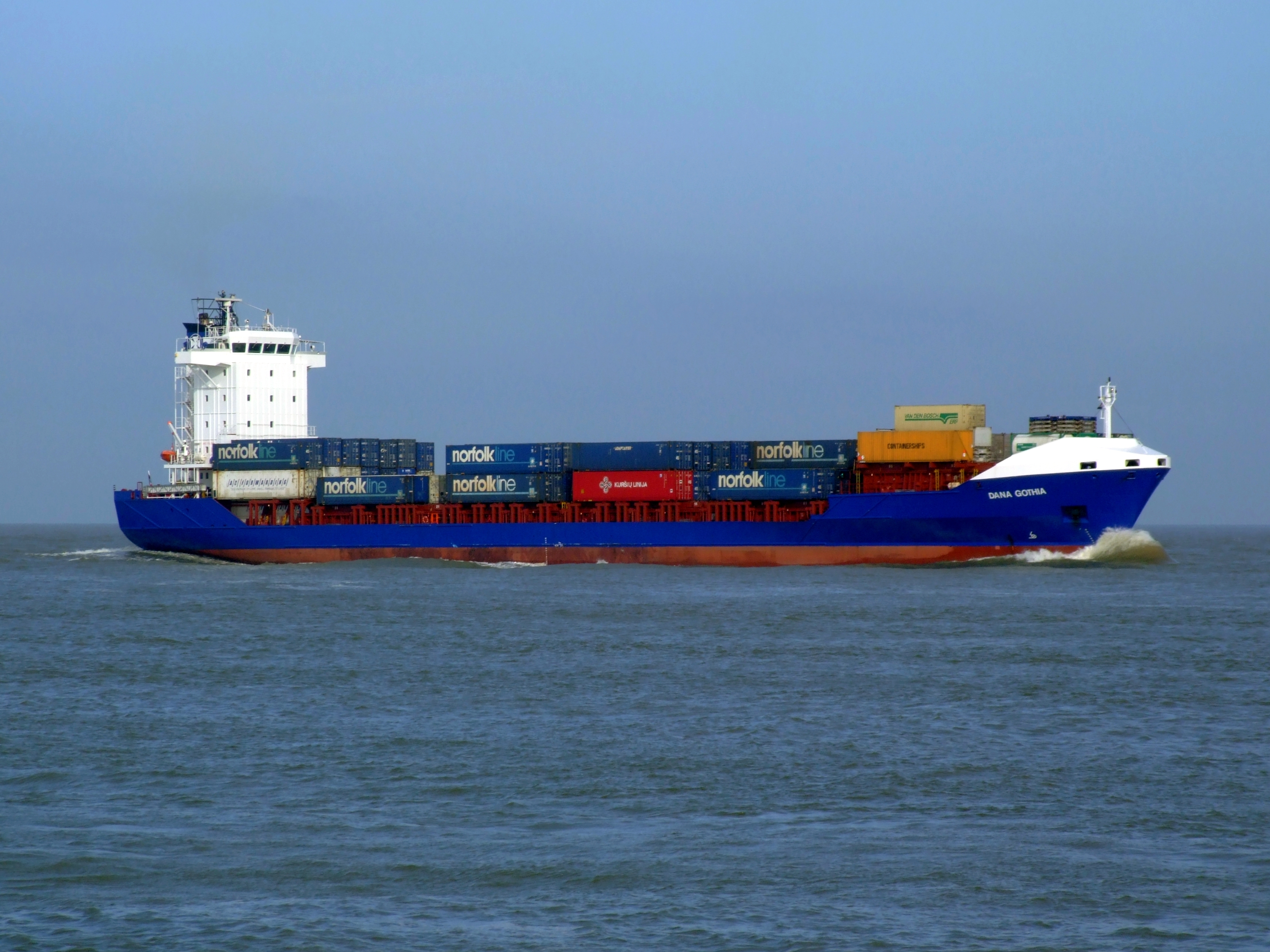 Container ship Dana Gothia IMO 9262895, March 8, 2007